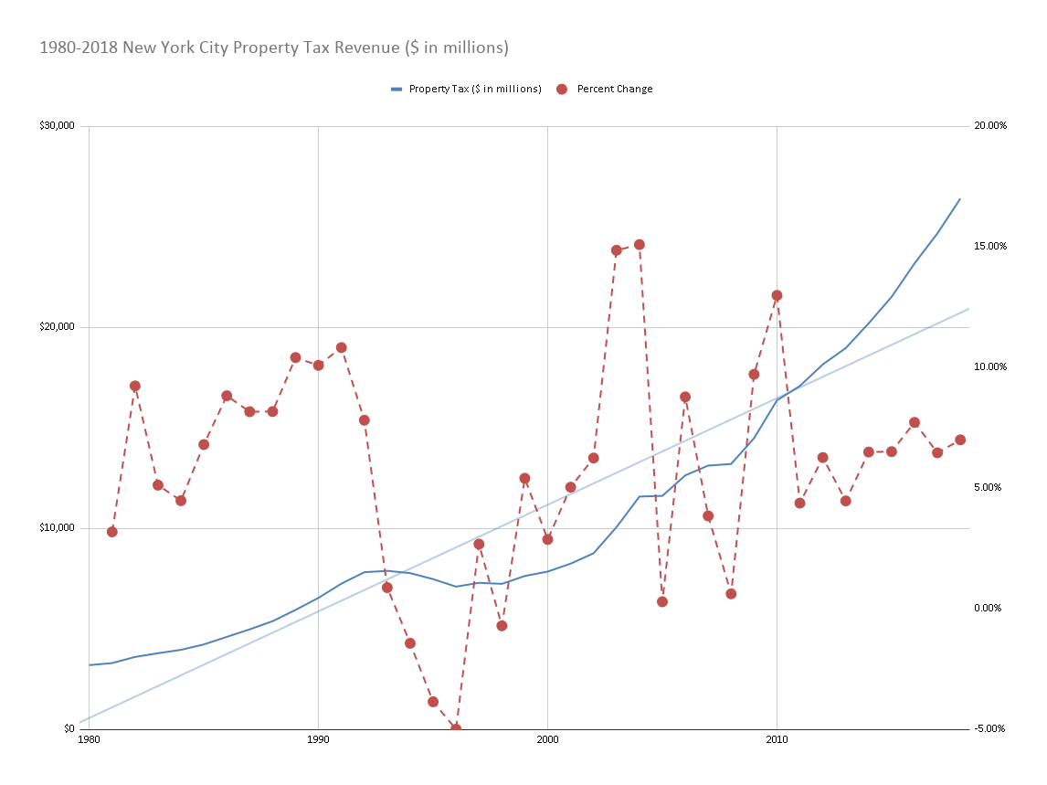 Chart of data from